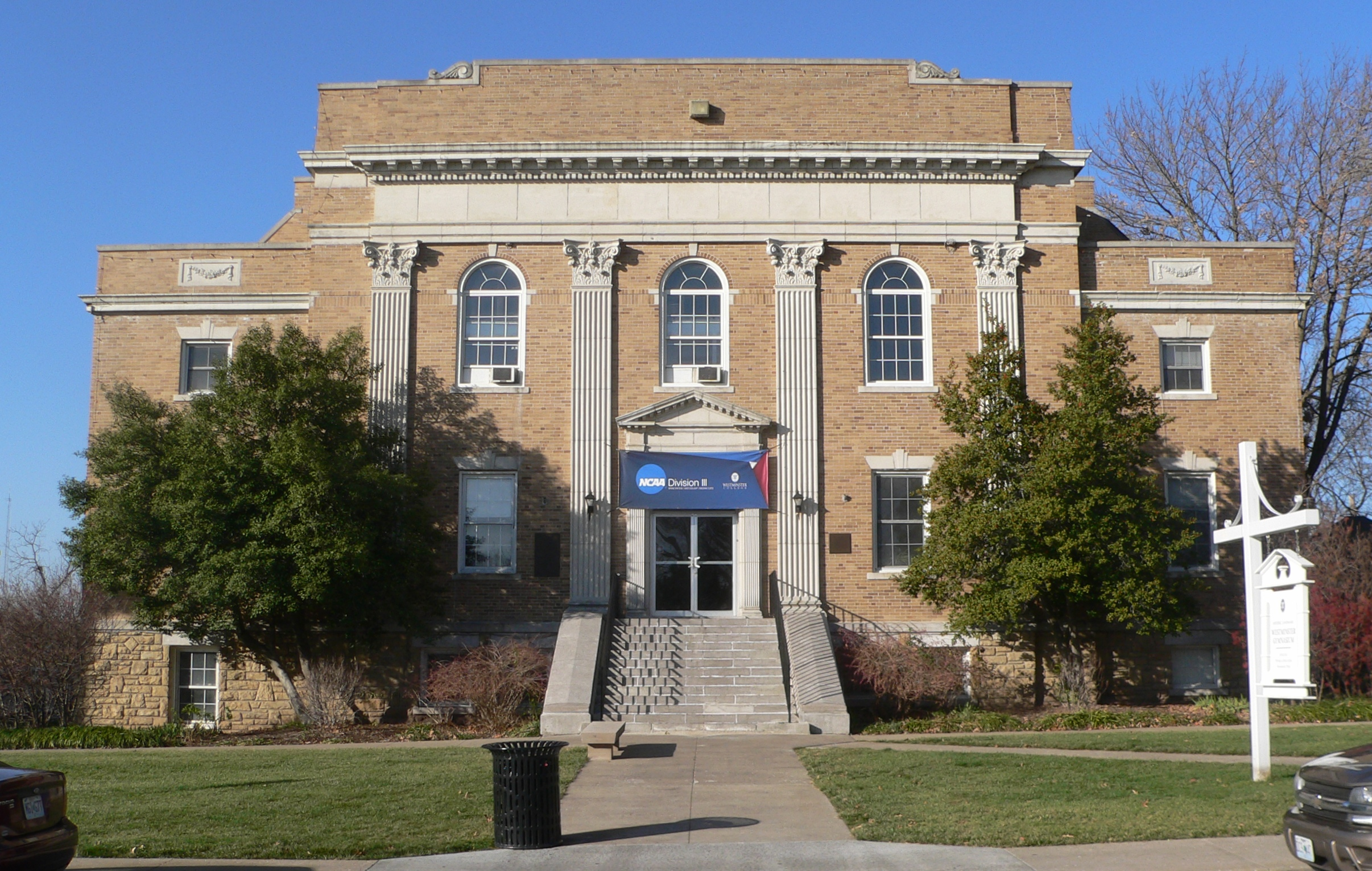 Westminster College Gymnasium in Fulton, Missouri; seen from the east.